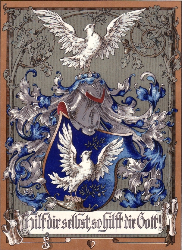 Coat of arms of the Simon Heinrich Sack Foundation as it appears in Das Silberne Buch from 1900.